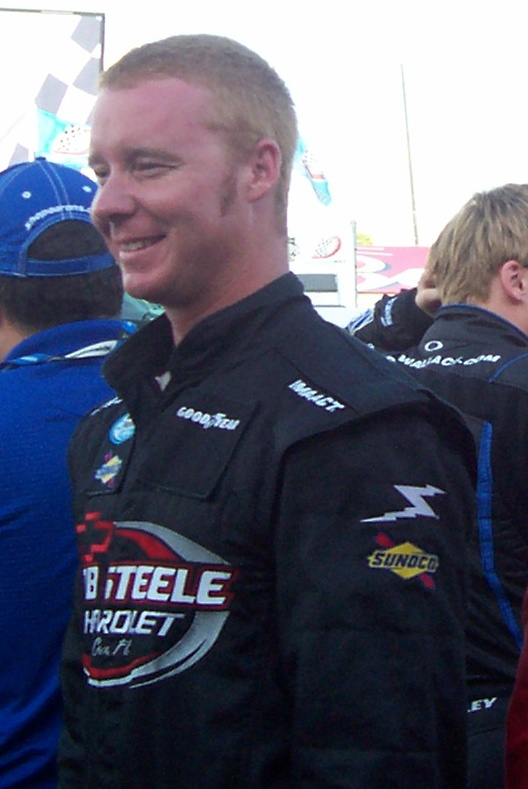 NASCAR Nationwide Series driver Travis Kittleson at the 2009 race at the Milwaukee Mile.